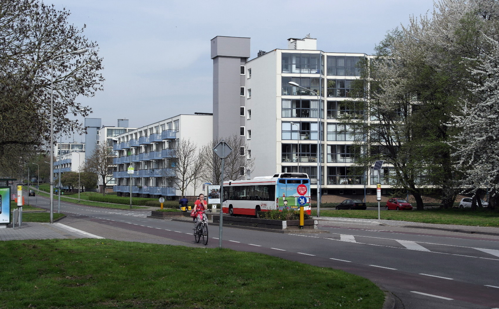 Maastricht, the Netherlands. Typical 1960s apartment blocks designed by Piet Dingemans along Malbergsingel in the neighbourhood of Malberg in Maastricht-West.